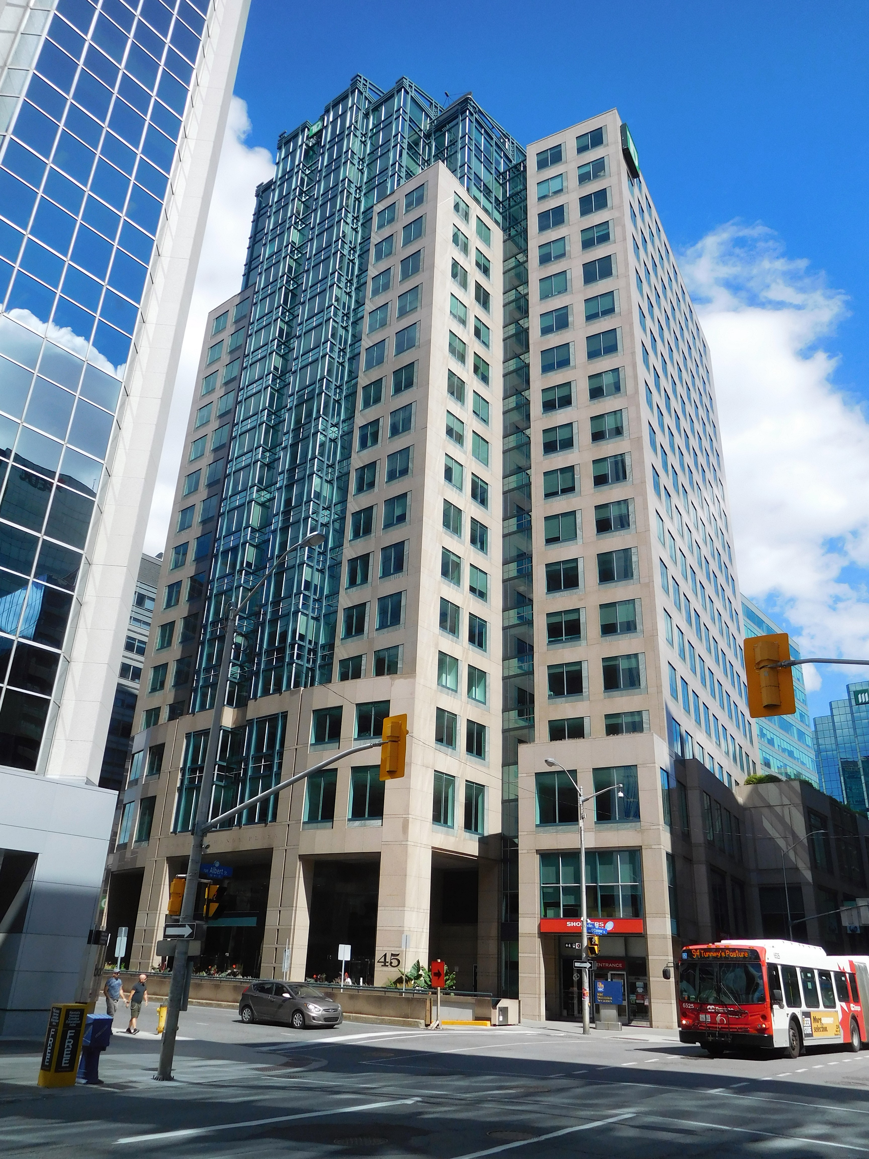 World Exchange Plaza Tower I, 45 O'Connor Street (at Albert), Ottawa